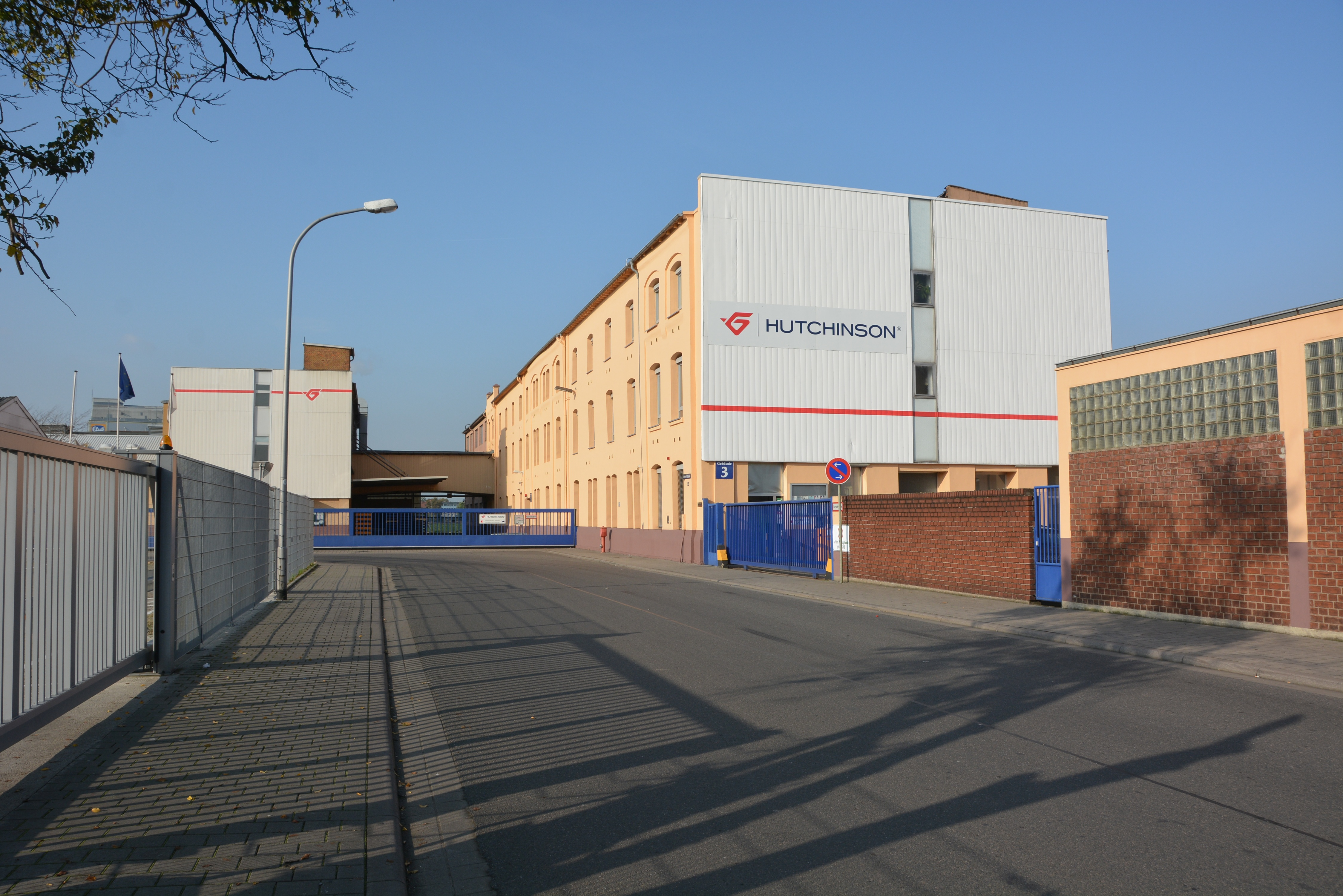 Hutchinson company in Mannheim, Germany